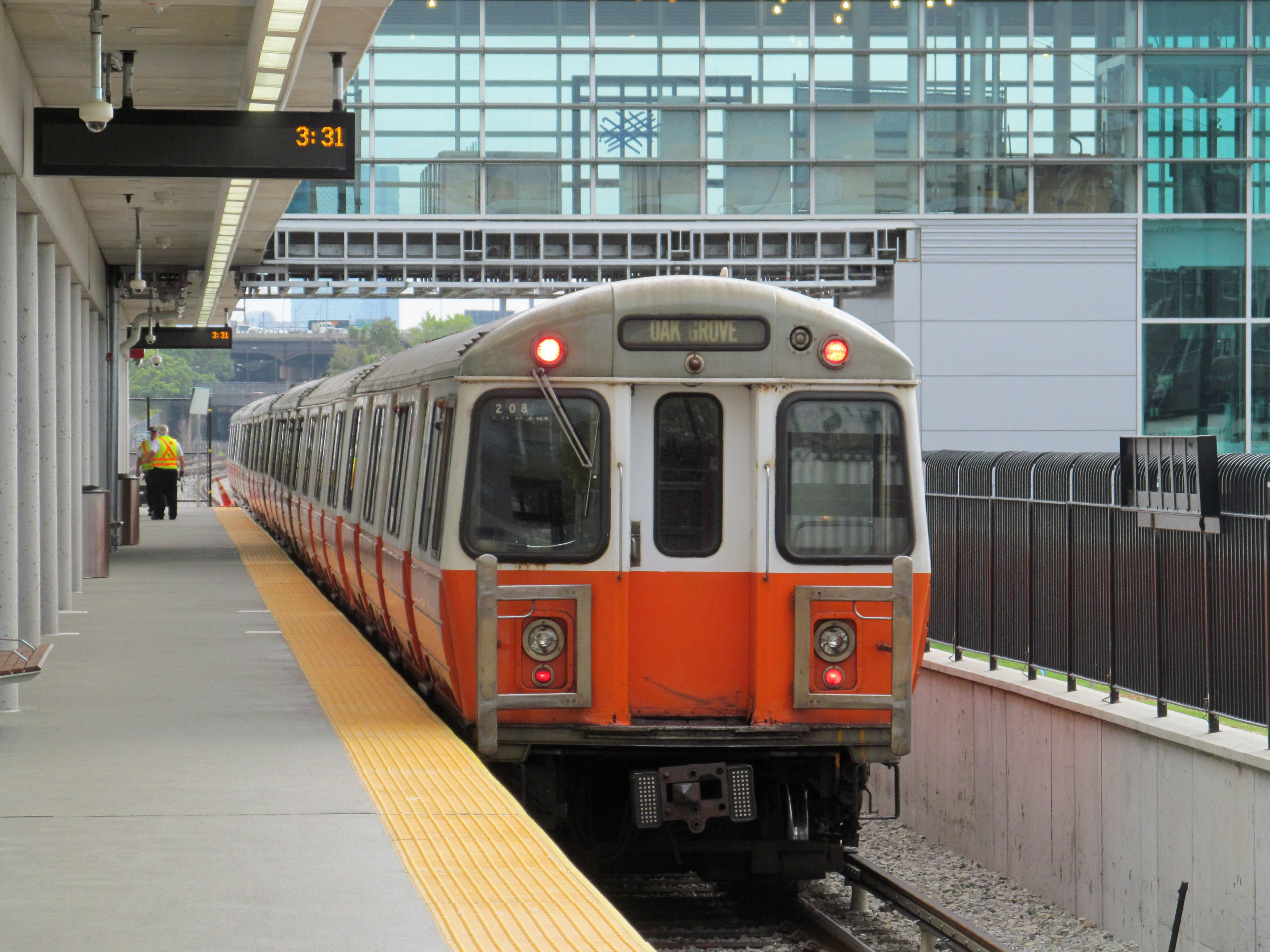 An inbound Orange Line train (incorrectly signed for Oak Grove) leaves Assembly Square station on its first day of operations